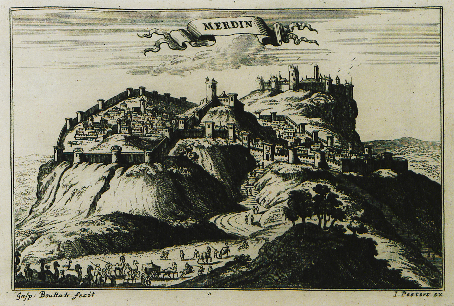 Jacob Peeters. Description des principales villes, havres et isles du golfe de Venise du coté oriental. Comme aussi des villes et forteresses de la Moree, et quelques places de la Grèce, Antwerp, Sur le marché des vieux Souliers, 1690.